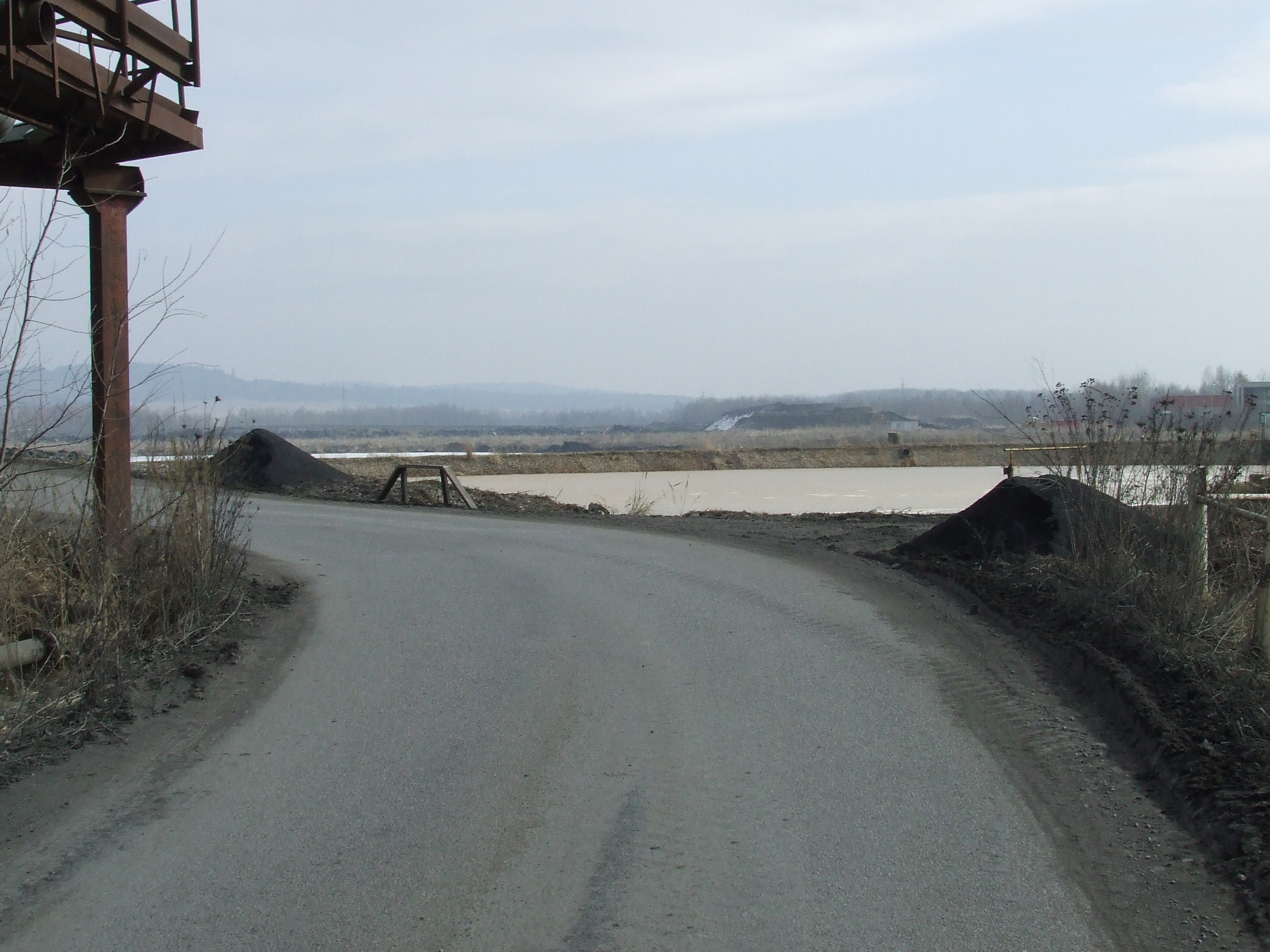 Uranium sludge ponds at MAPE